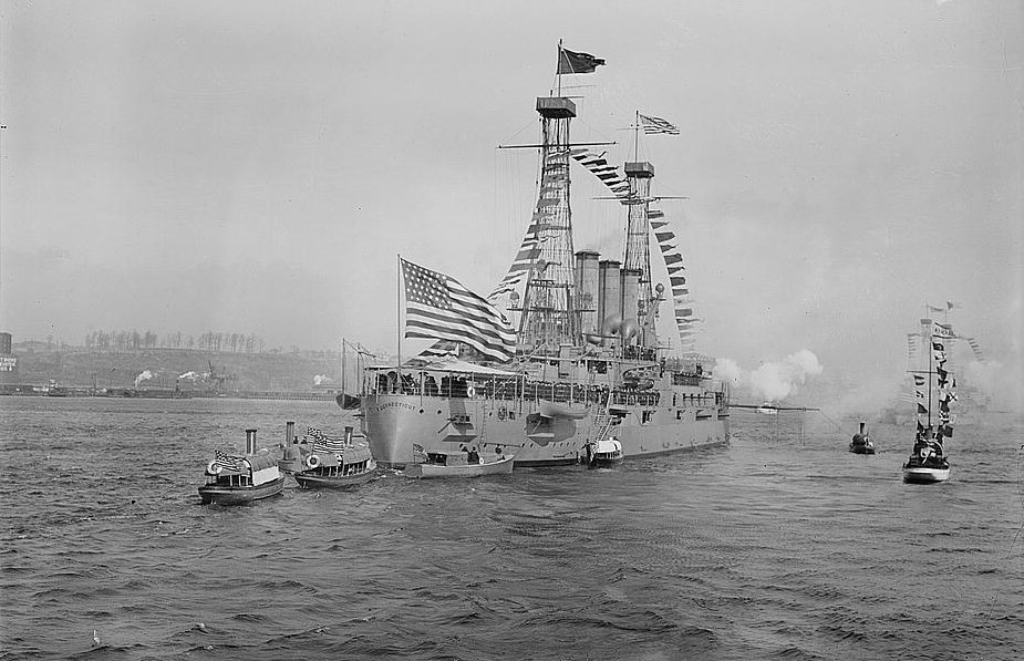 glass negative of USS Connecticut (BB-18) saluting the presidential yacht USS Mayflower (PY-1) c. 1910-1915; image cleaned up to repair scratches and other damage